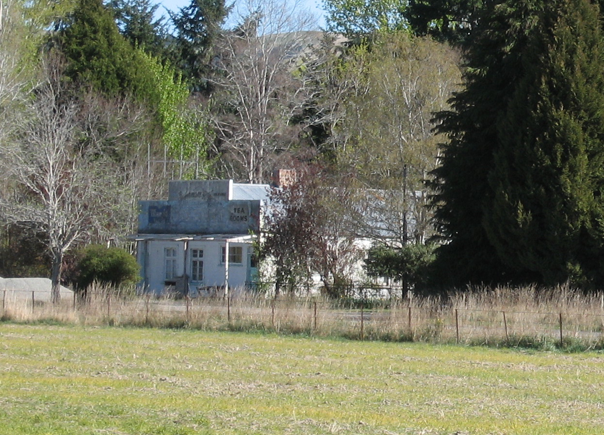 The former Parawa Junction Hotel, September2009